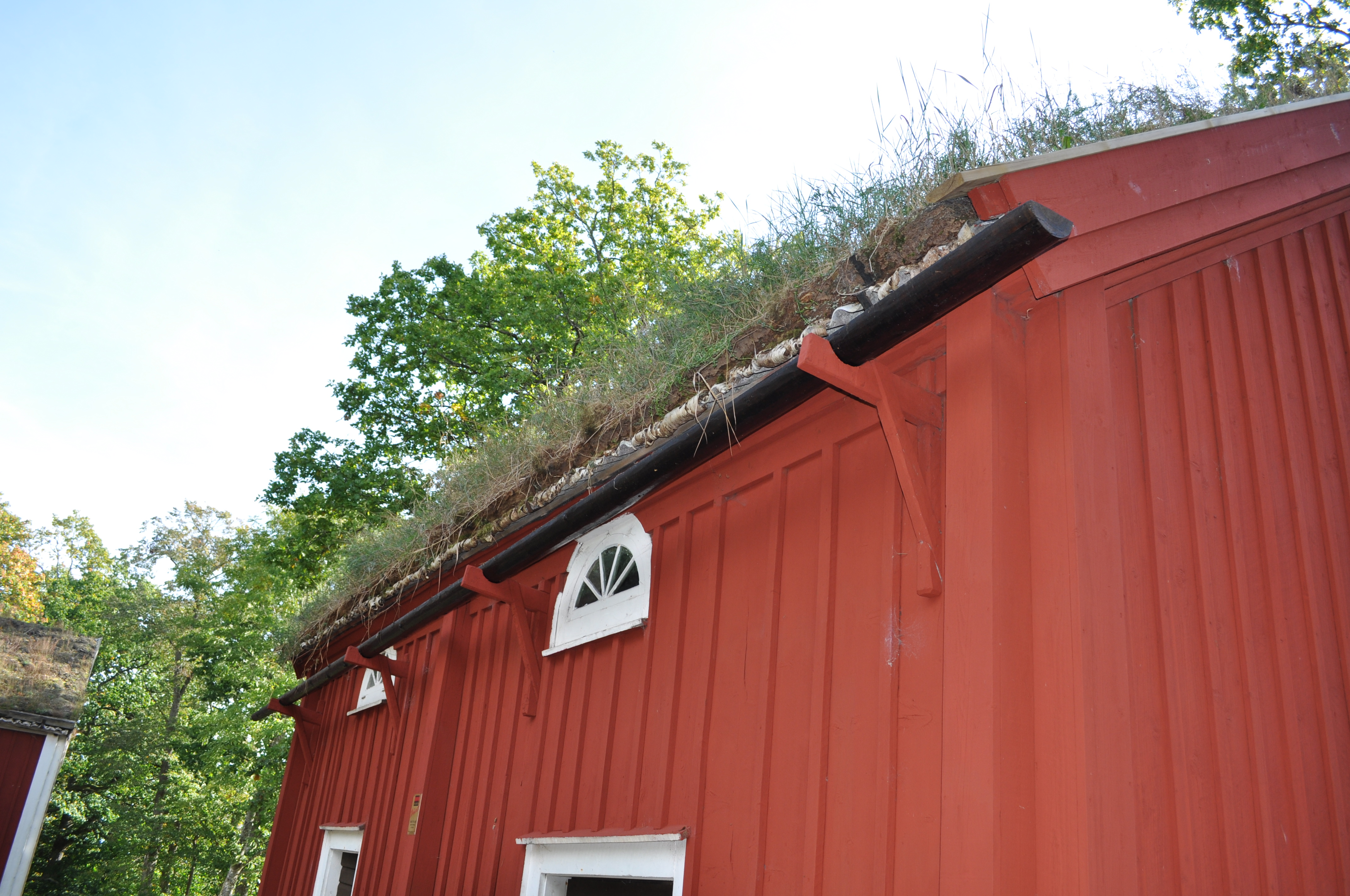 Wooden rain gutter